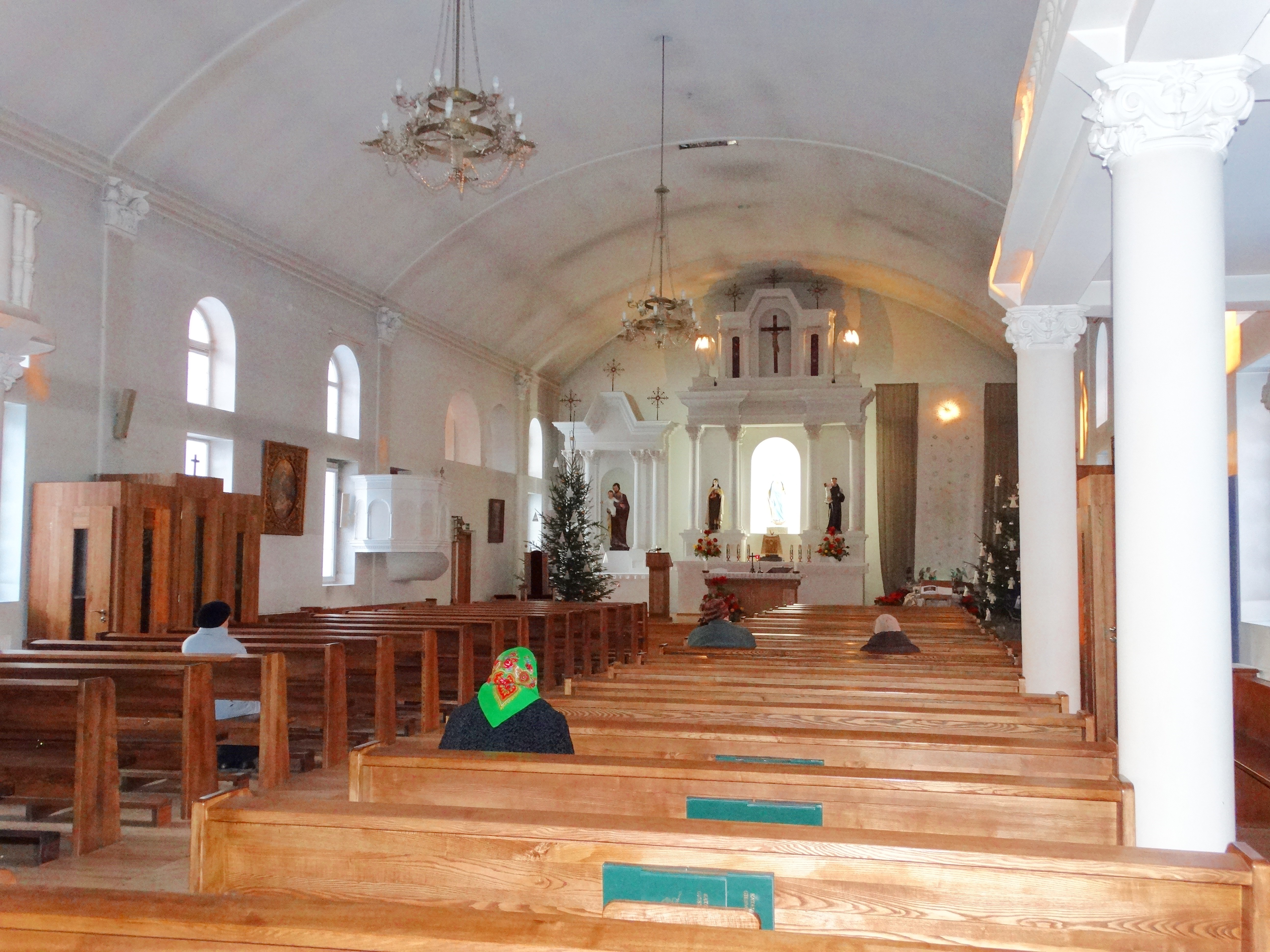 Church of the Birth of the Most Holy Virgin Mary, Radviliškis, Lithuania